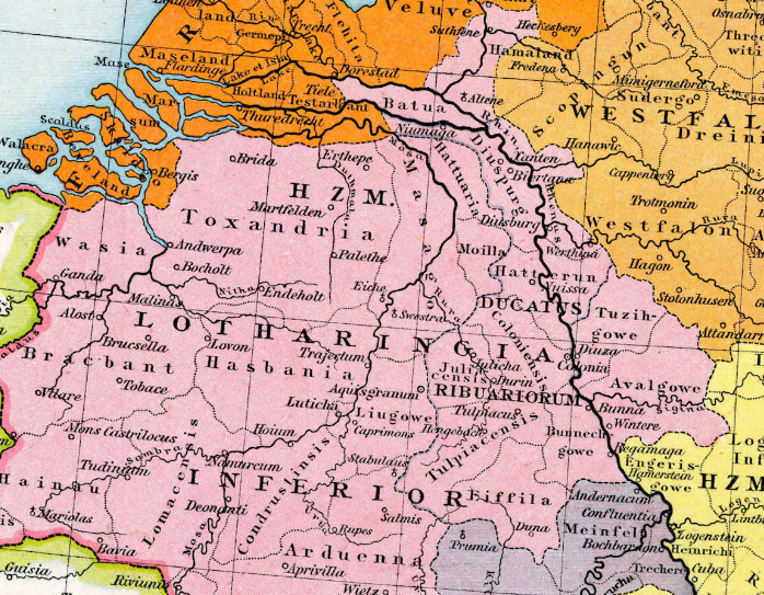 Herzogtum Ribuarien - Plate 22 & 23 of Professor G. Droysens Allgemeiner Historischer Handatlas, published by R. Andrée.